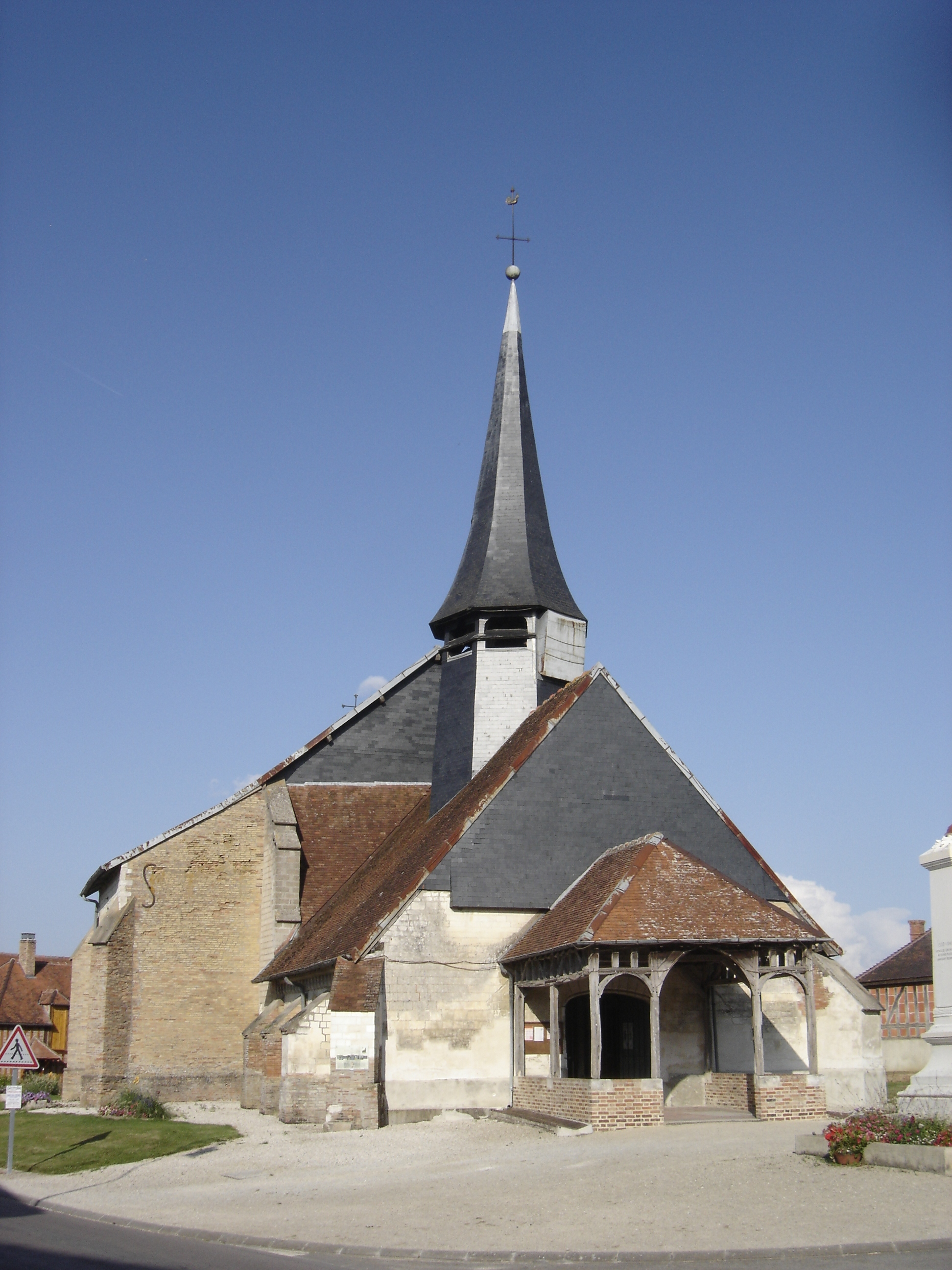 église Saint Pierre et Saint Paul - Géraudot - Aube - France